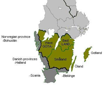 Map of Götaland, the region which was merged with Svealand and thereby formed Sweden, bolder borders and the larger island of Gotland as before expansions of Sweden. Until 1815, also Värmland was part of Götaland.